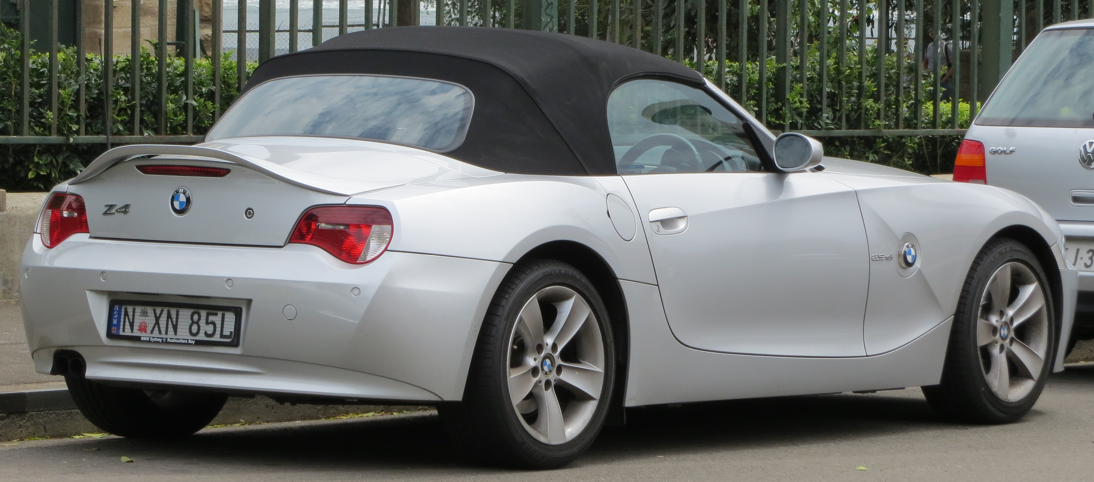 2006 BMW Z4 (E85) 2.5si convertible. Photographed in Millers Point, New South Wales, Australia.